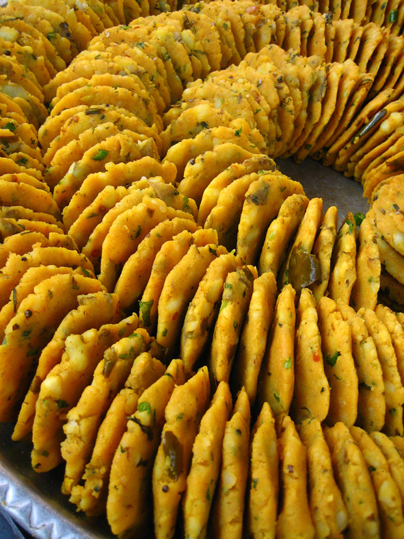 Potato snacks in the Zaveri Bazaar in Kalbadevi (Mumbai, India).Batata Vada